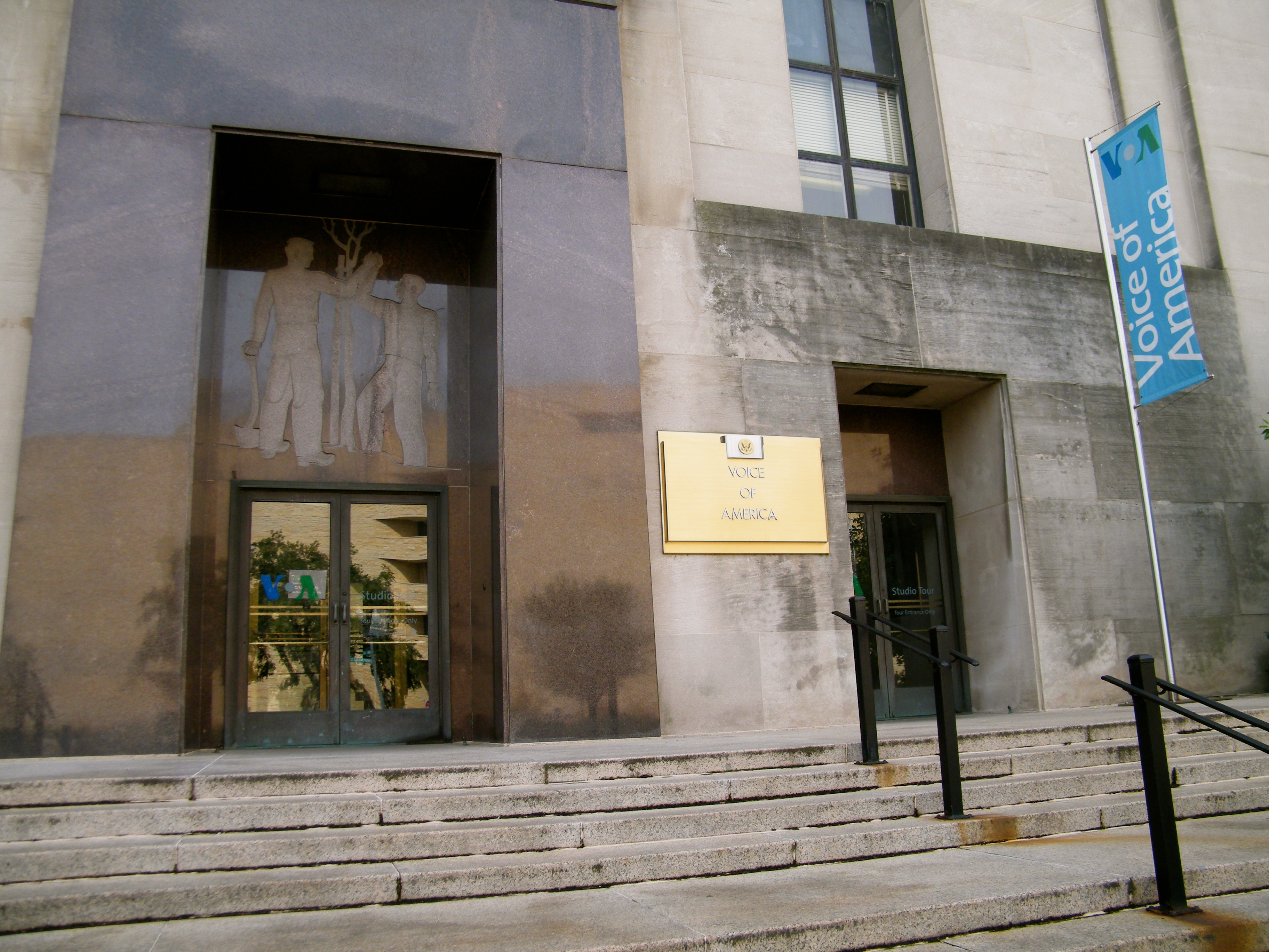 The headquarters of Voice of America, Washington, D.C.